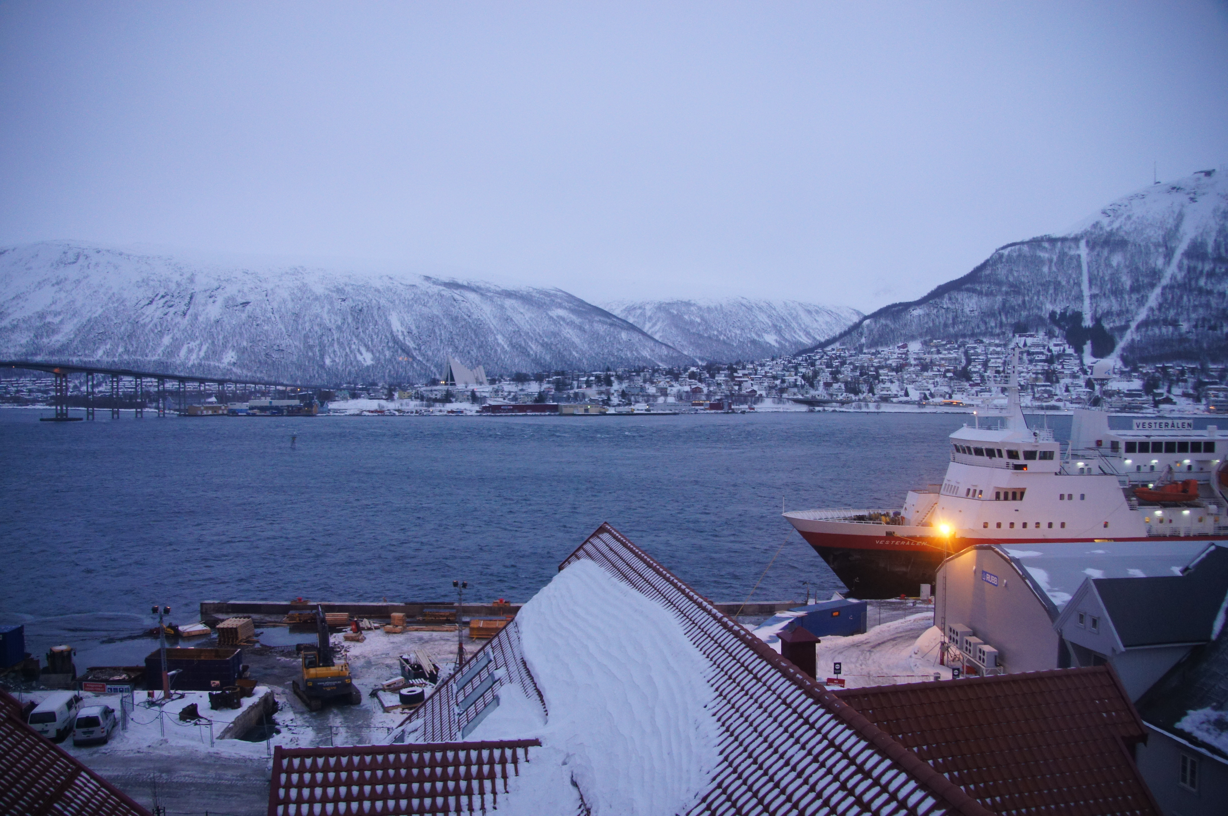 Tromsø. View from the hotel.